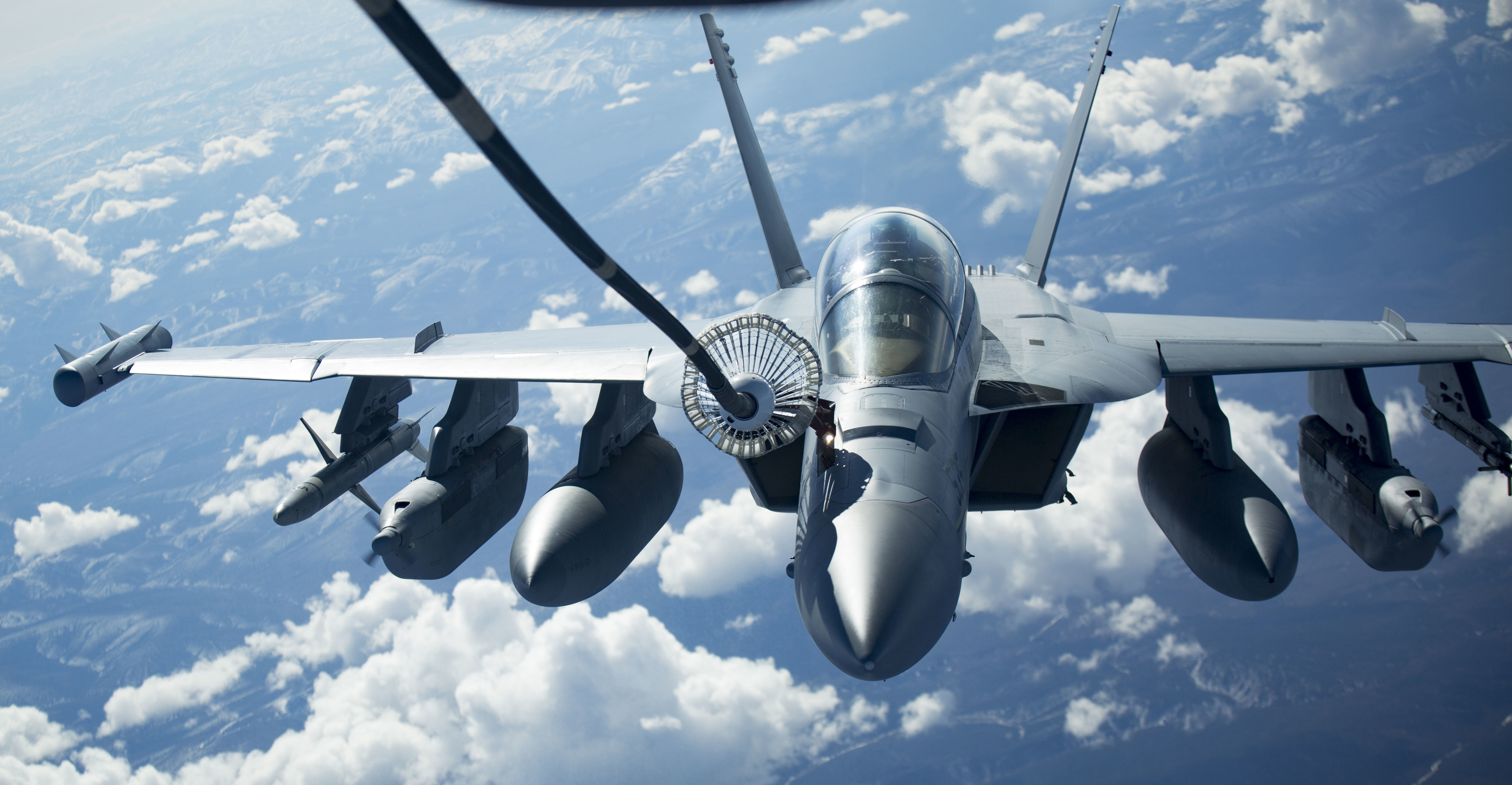 ANCHORAGE, Alaska (May 12, 2017) An EA-18G Growler conducts air-to-air refueling during exercise Northern Edge 17 at Joint Base Elmendorf-Richardson, Alaska. Northern Edge 17 is Alaska’s premier joint-training exercise and is conducted to strengthen the interoperability between various aircraft from all services. (U.S. Marine Corps photo by Lance Cpl. Jacob A. Farbo/Released) 170512-M-HD015-0034 Join the conversation: navylive.dodlive.mil